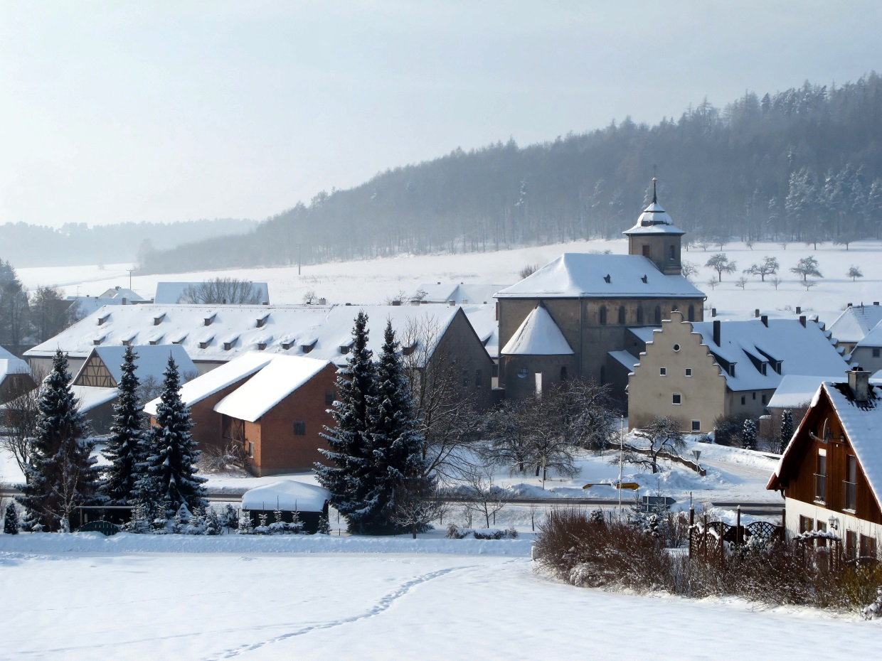 Wechterswinkel, View to Abbey from East